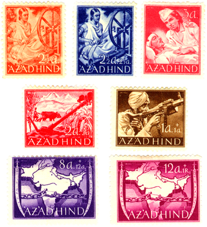 (Issue is from a long-defunct government.)